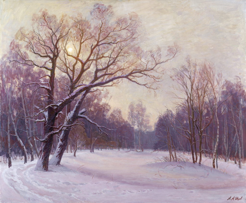 winter light